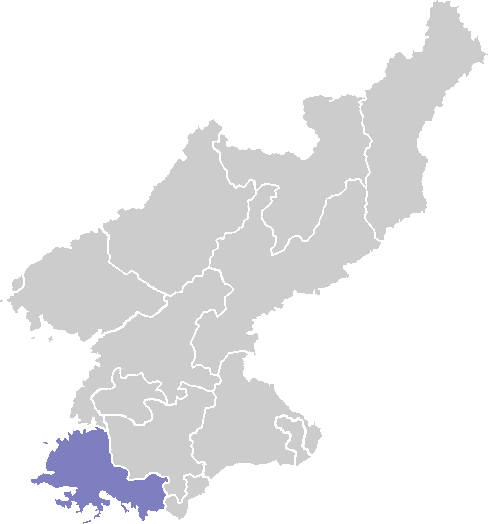 Area map of South Hwanghae province